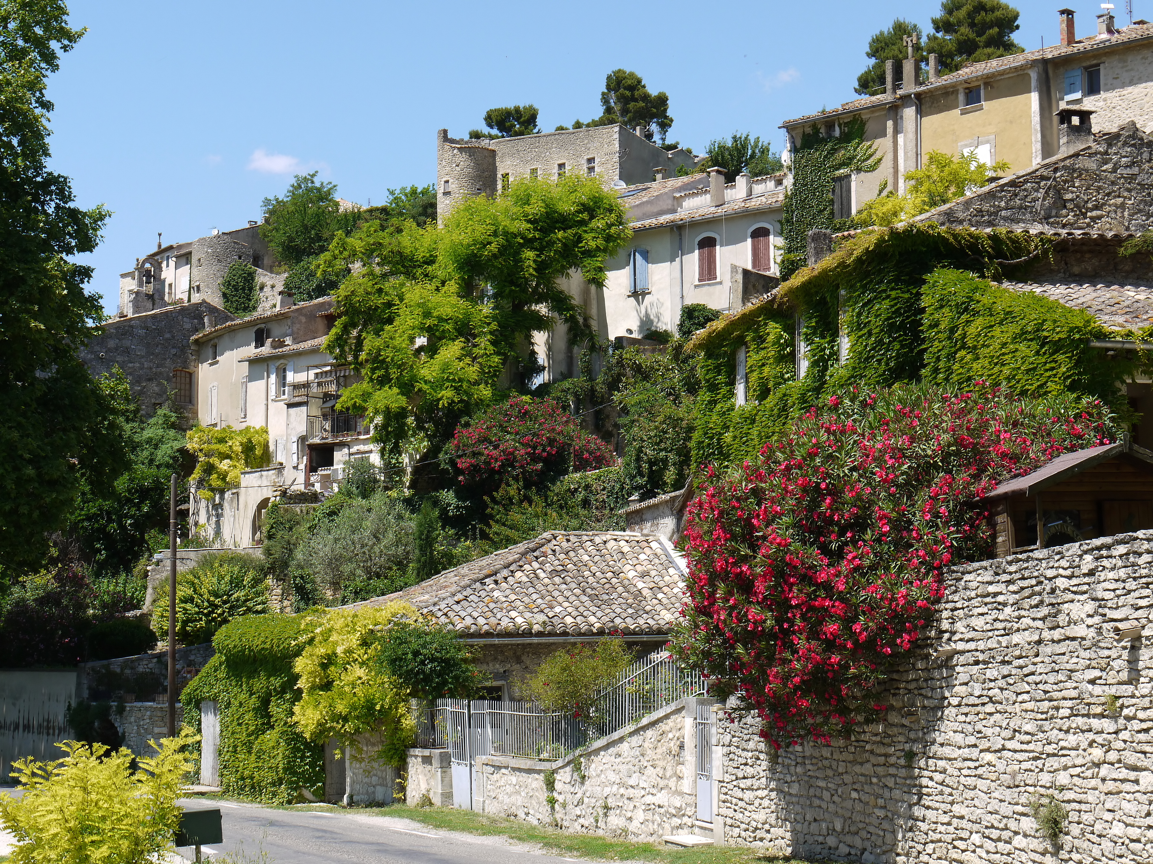 Ménerbes, Provence, France